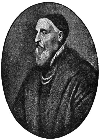 Portrait of Tiziano Vecelli